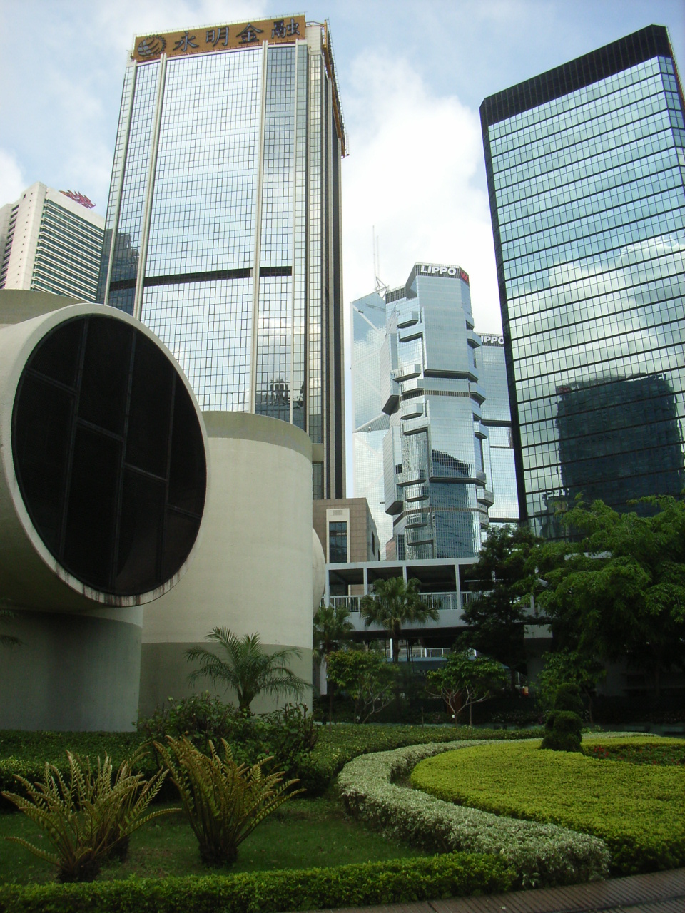 HK Harcourt Park, Queensway Bay Picture by QWB656